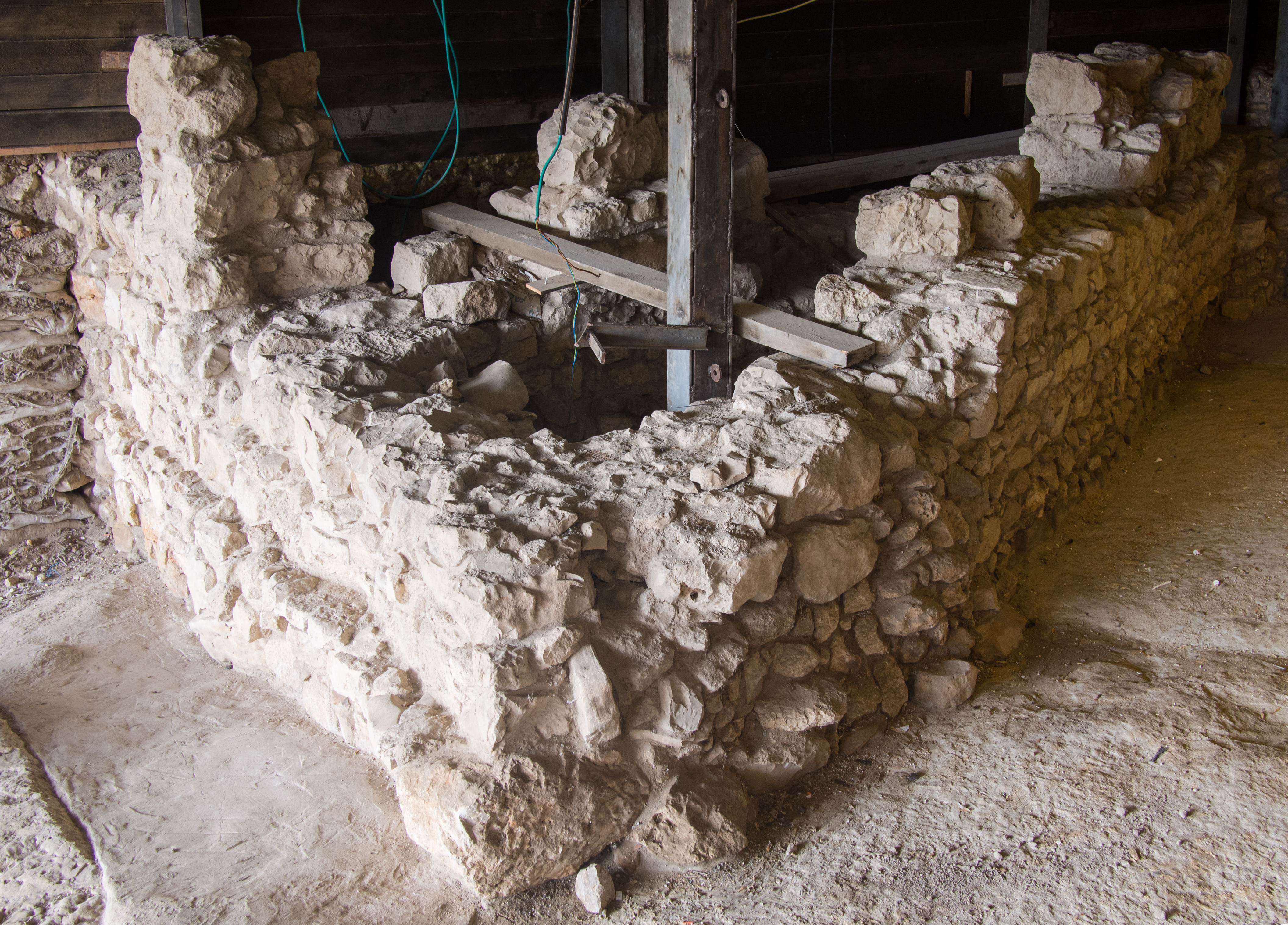 Large Stone Structure in Jerusalem (City of David).